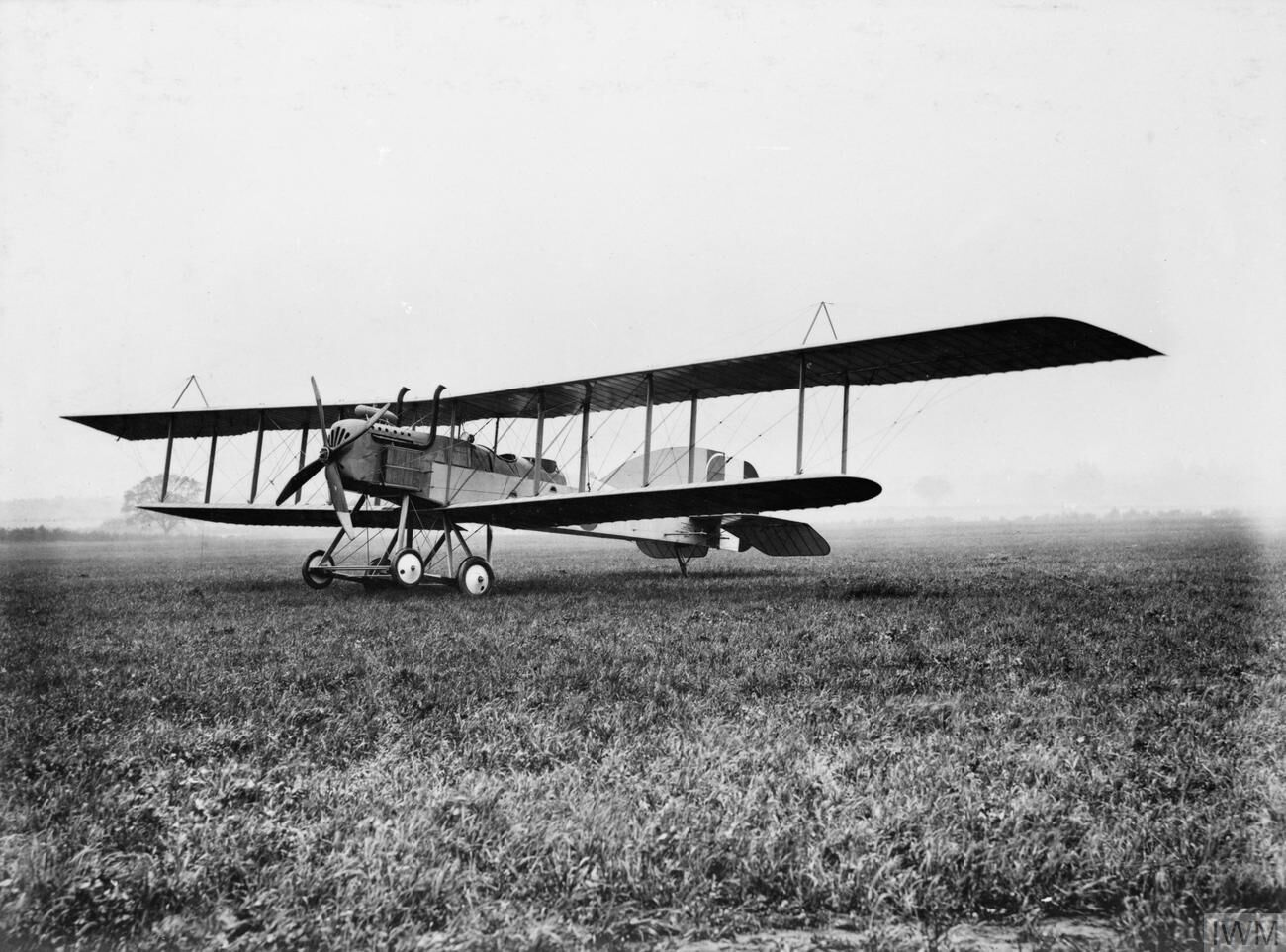 Short Bomber (9476)